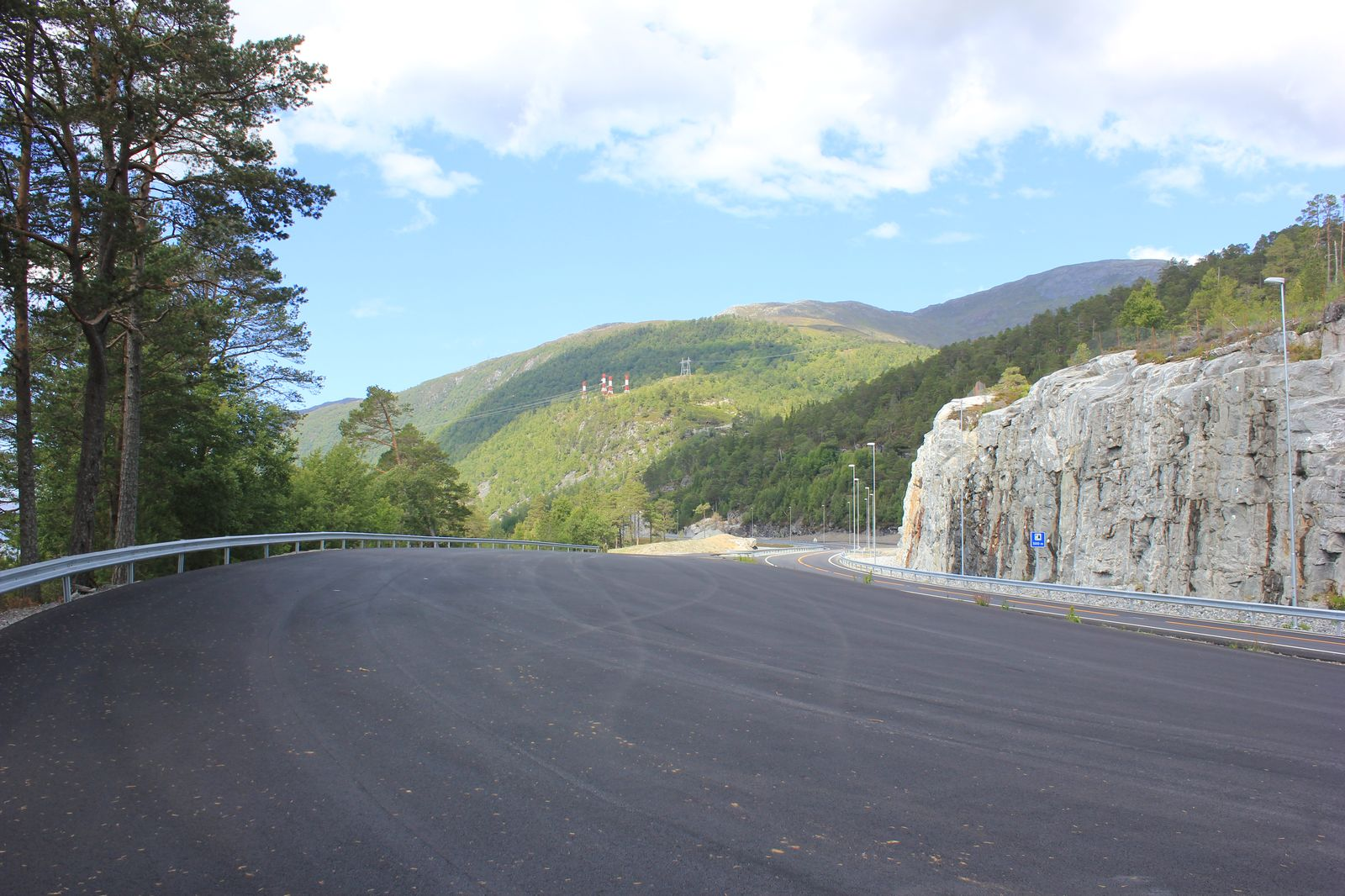 A resting place at Kvivsvegen